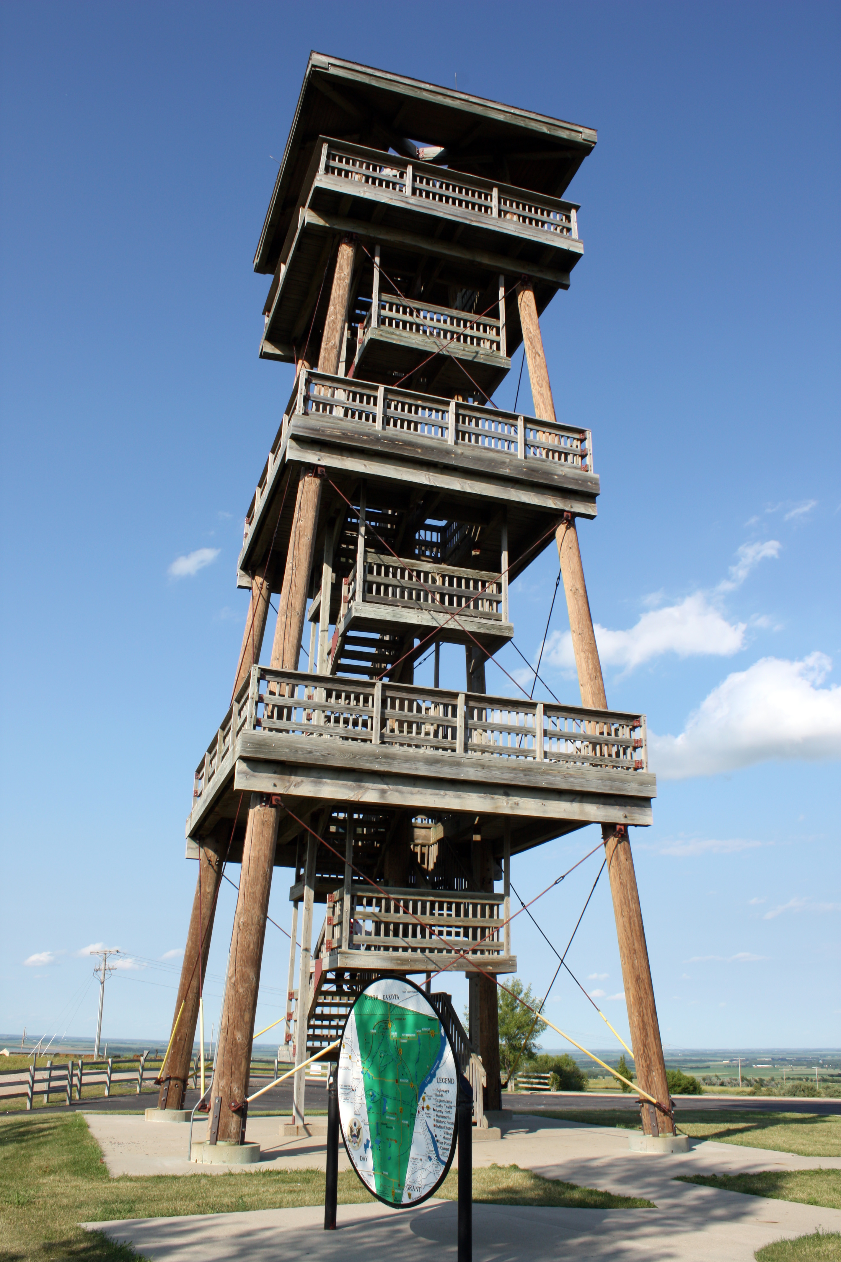 Nicollet Tower, built as a monument to Joseph Nicollet, located off of Highway 10 in Sisseton.